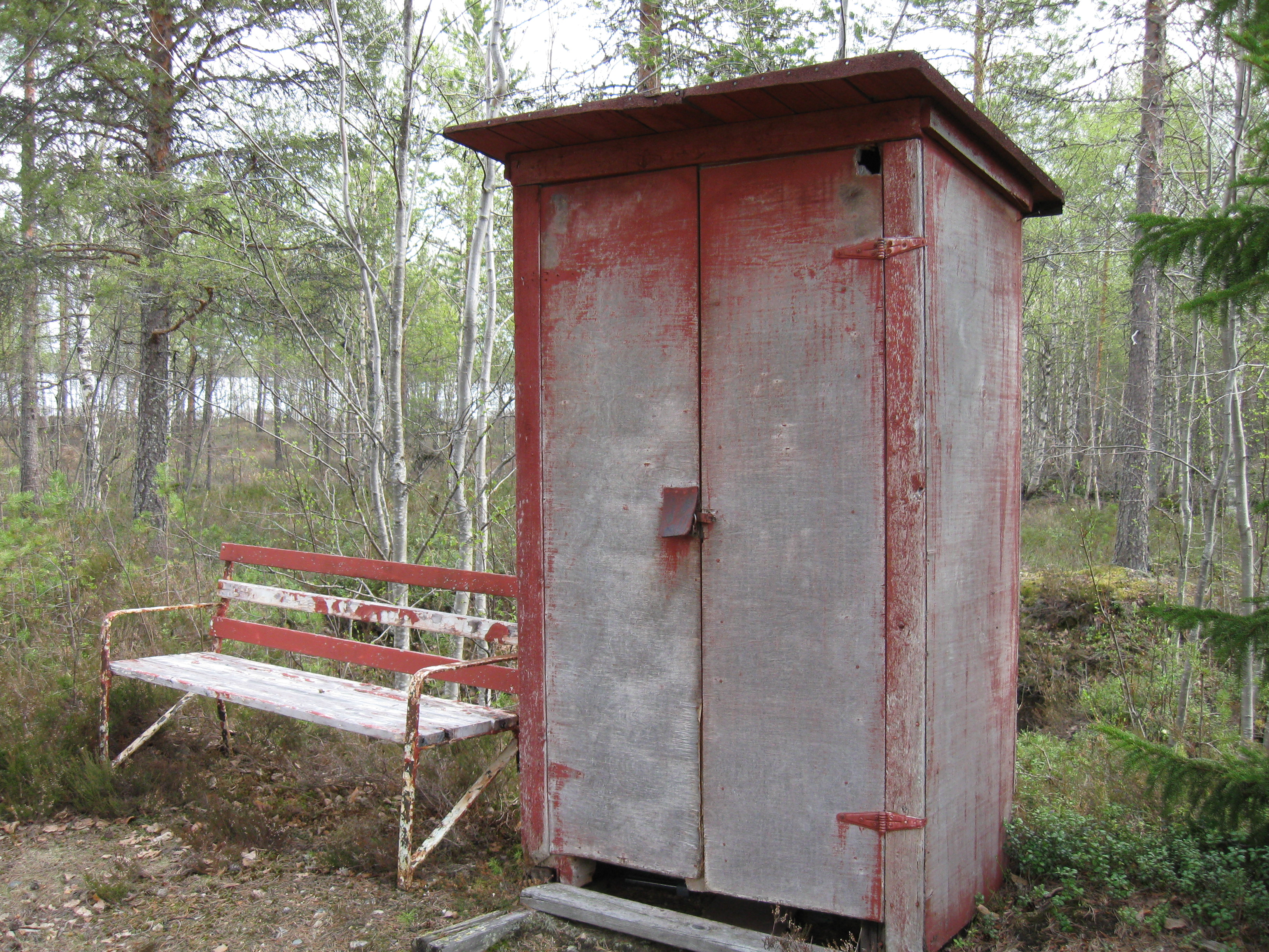 A small hut to store fishing equipment at a distant Finnish lake.